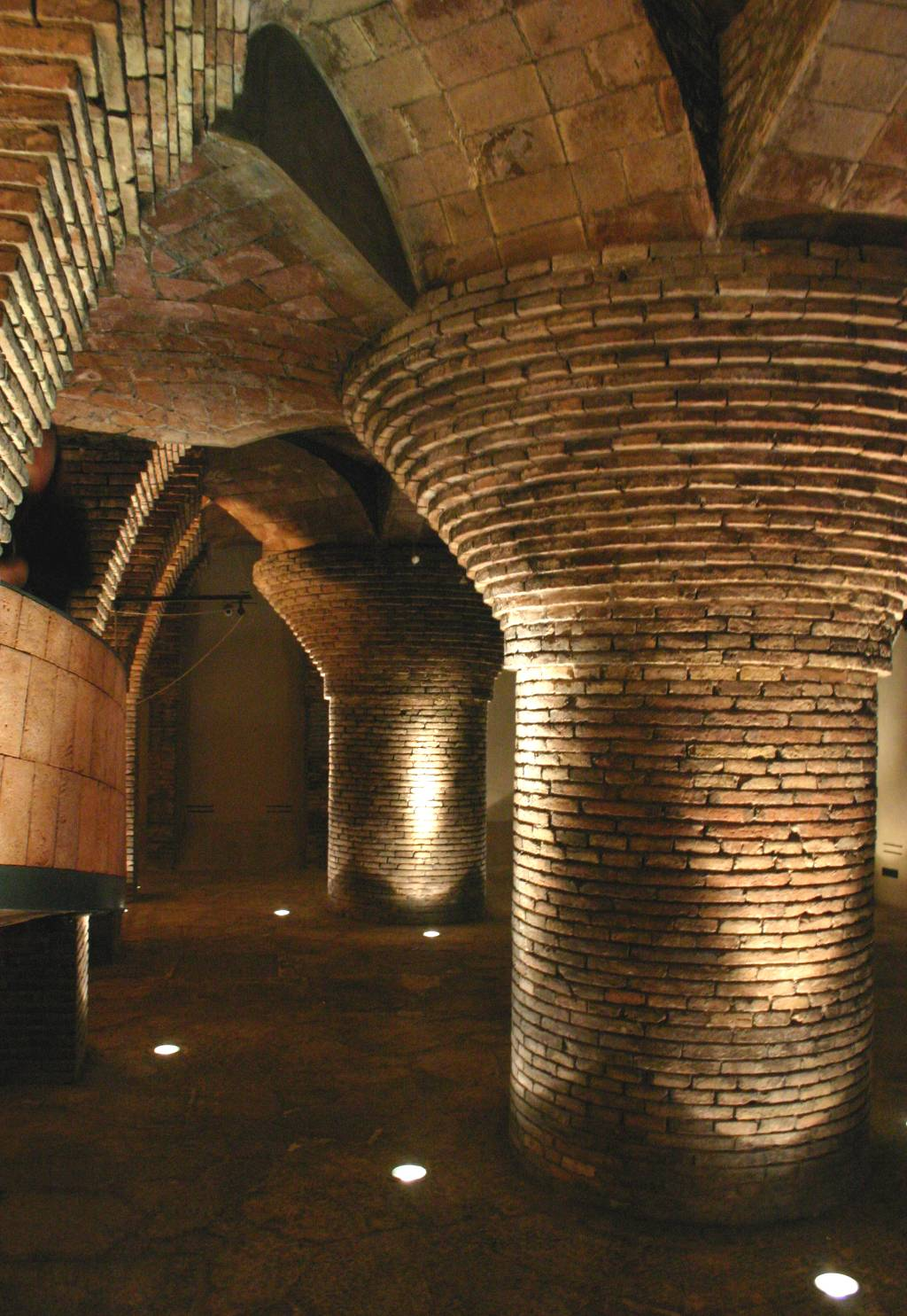 Barcelona is an excellent city to spend some time in - great architecture, good walking and sight seeing, and delicious food. These photos are ancient - I took them on a trip to Barcelona in April 2004 when I was just converting to digital.